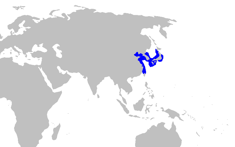 Distribution map for Squatina nebulosa